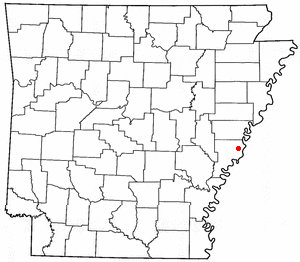 Adapted from Map of Arkansas.png